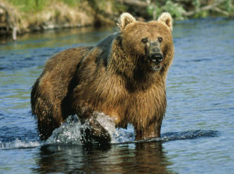 Kodiak brown bear at Dog Salmon Creek in water up to knees.